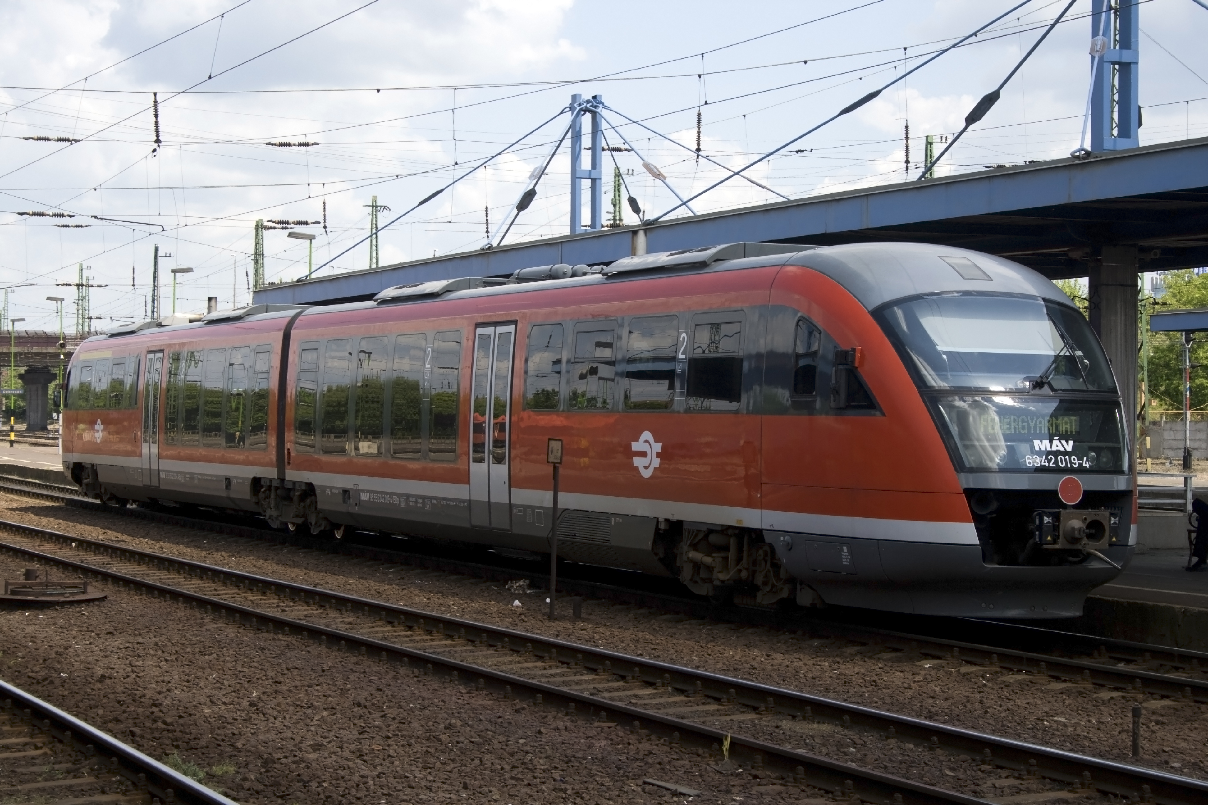 Siemens Desiro in Debrecen, Hungary